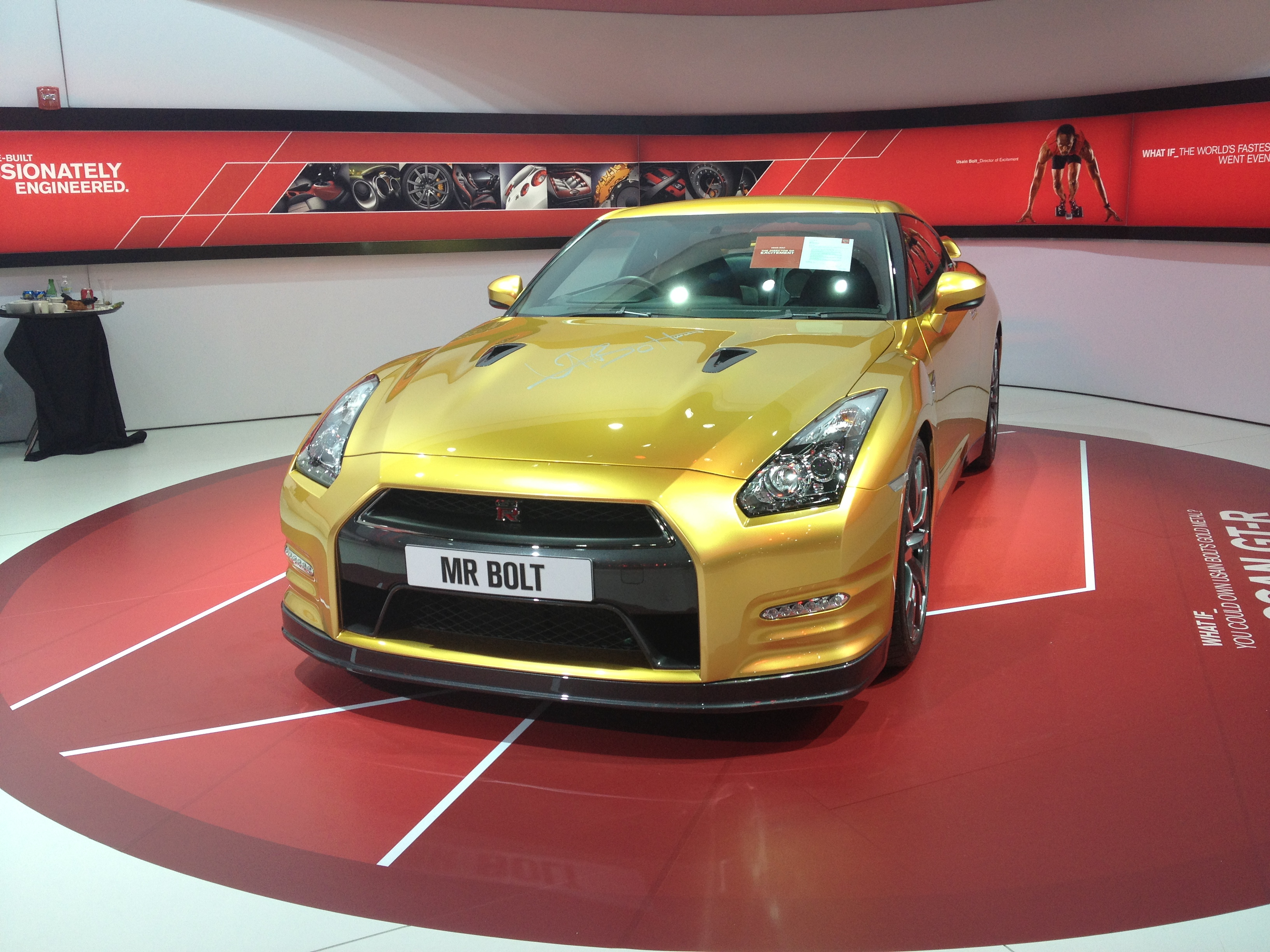 2013 North American International Auto Show Detroit, Michigan